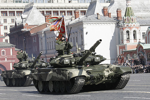 Military parade in honour of the 64th anniversary of the Victory in the Great Patriotic War. T-90 tanks.